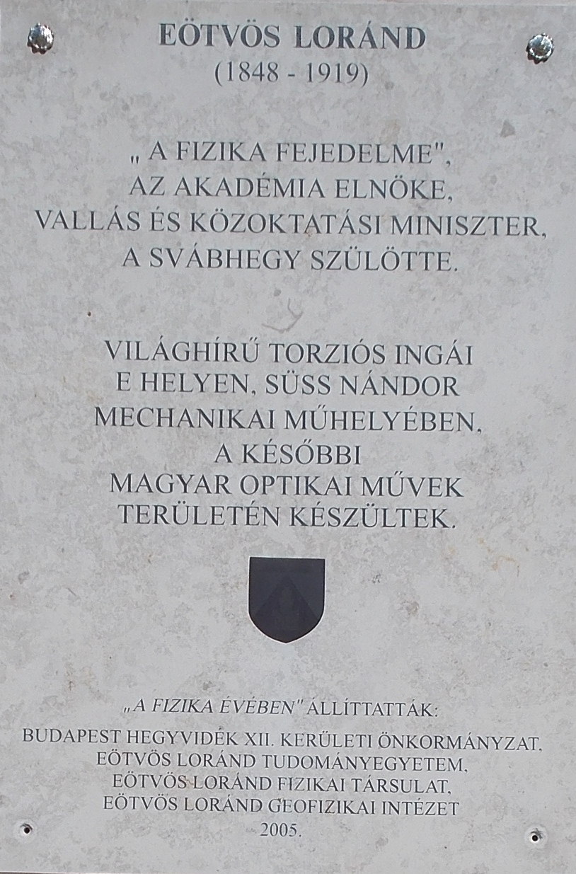 Plaque of Loránd Eötvös at MOM Park Complex, Süss Nándor Promenade, Németvölgy neighbourhood, Budapest District XII